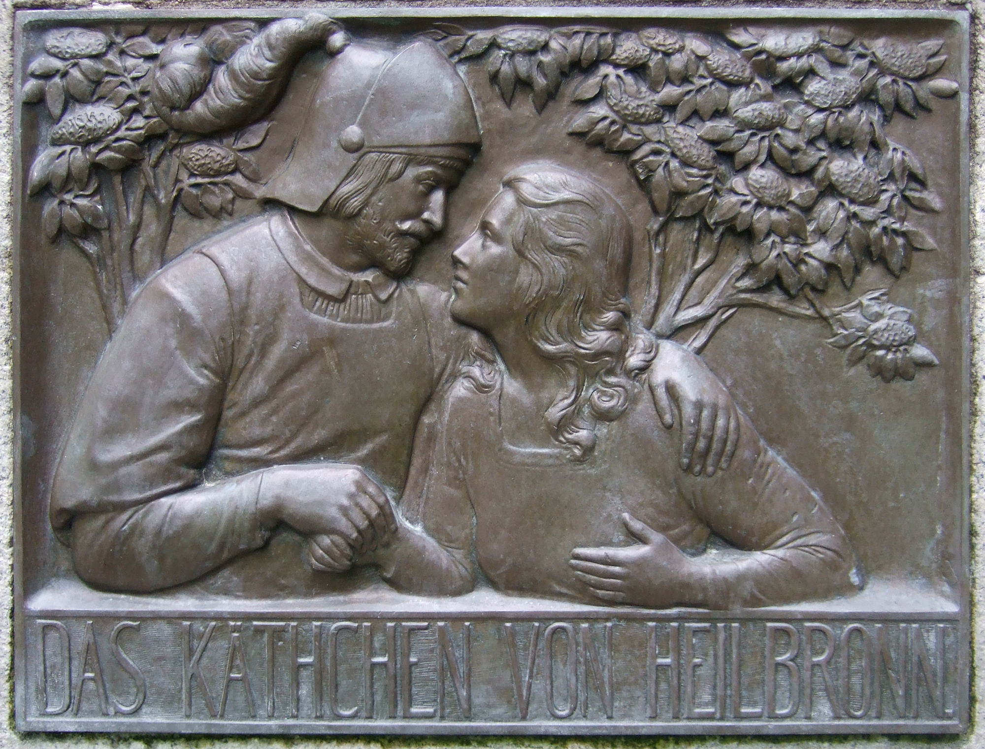 Heinrich von Kleist Memorial in Frankfurt (Oder), Germany. Situated in the Park at the St. Gertraud Church. Made by Gottlieb Elster in 1910.